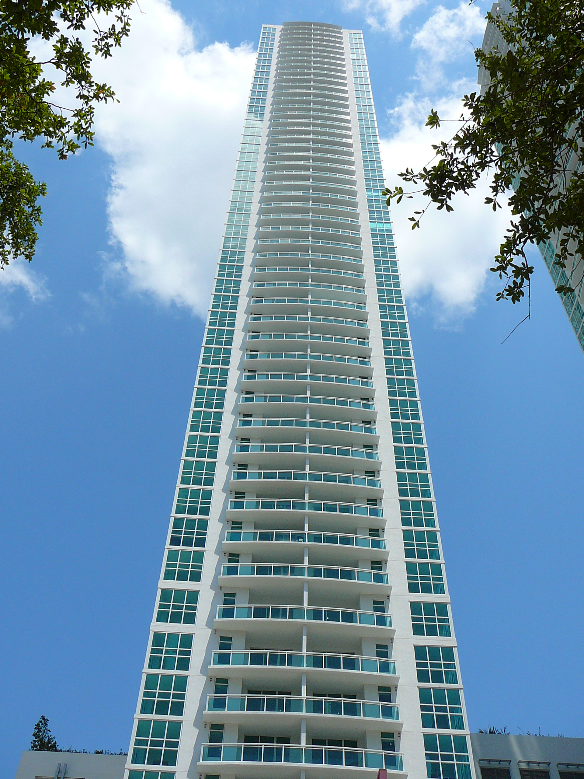 Digital photo taken by Marc Averette. The Plaza on Brickell tower I in downtown Miami, Brickell Avenue view 5/14/2008